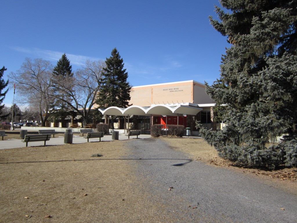 Main entrance to the school